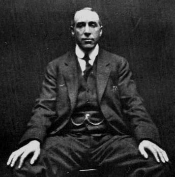 A photograph of paranormal investigator Harry Price, taken by spirit photographer William Hope in 1922